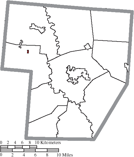 Map of the municipal and township boundaries of Fayette County, Ohio, United States, as of the 2000 census, with the location of the village of Milledgeville highlighted. Township borders are shown only in unincorporated areas in order to differentiate incorporated and unincorporated areas more clearly.